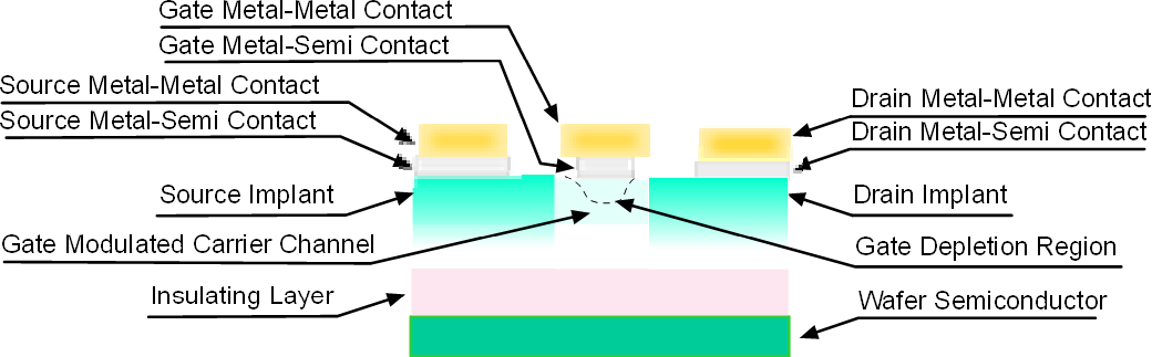 Schematic representation of Metal Semiconductor Field Effect Transistor (MESFET)